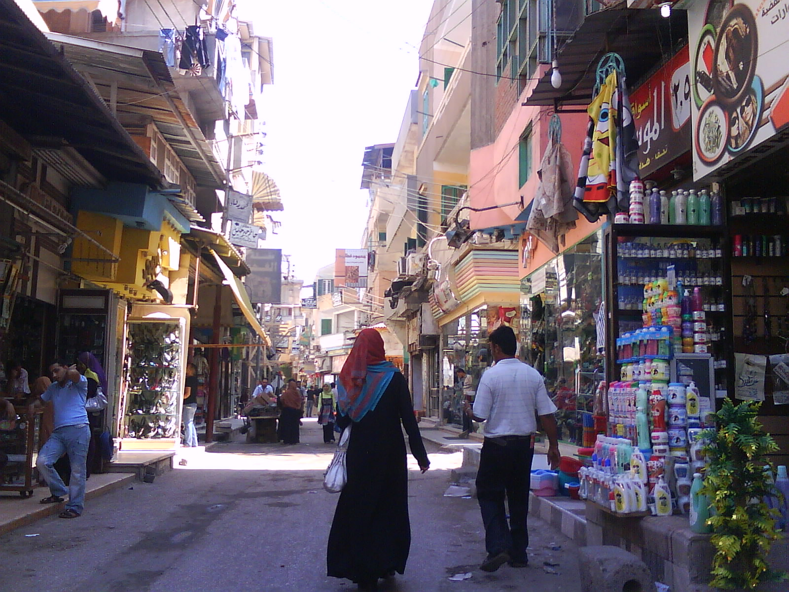 Market street in Damietta